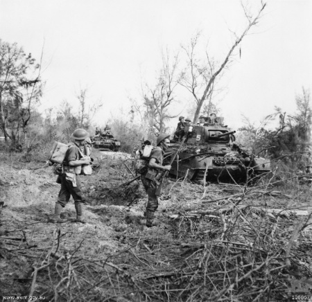 Matilda II tanks from the Australian 2/9th Armoured Regiment moving east soon after landing on Labuan during Operation Oboe 6.